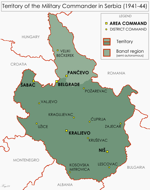 Map of the Territory of the German Military Commander in Serbia. Showing area and district commands and the Banat autonomous region.